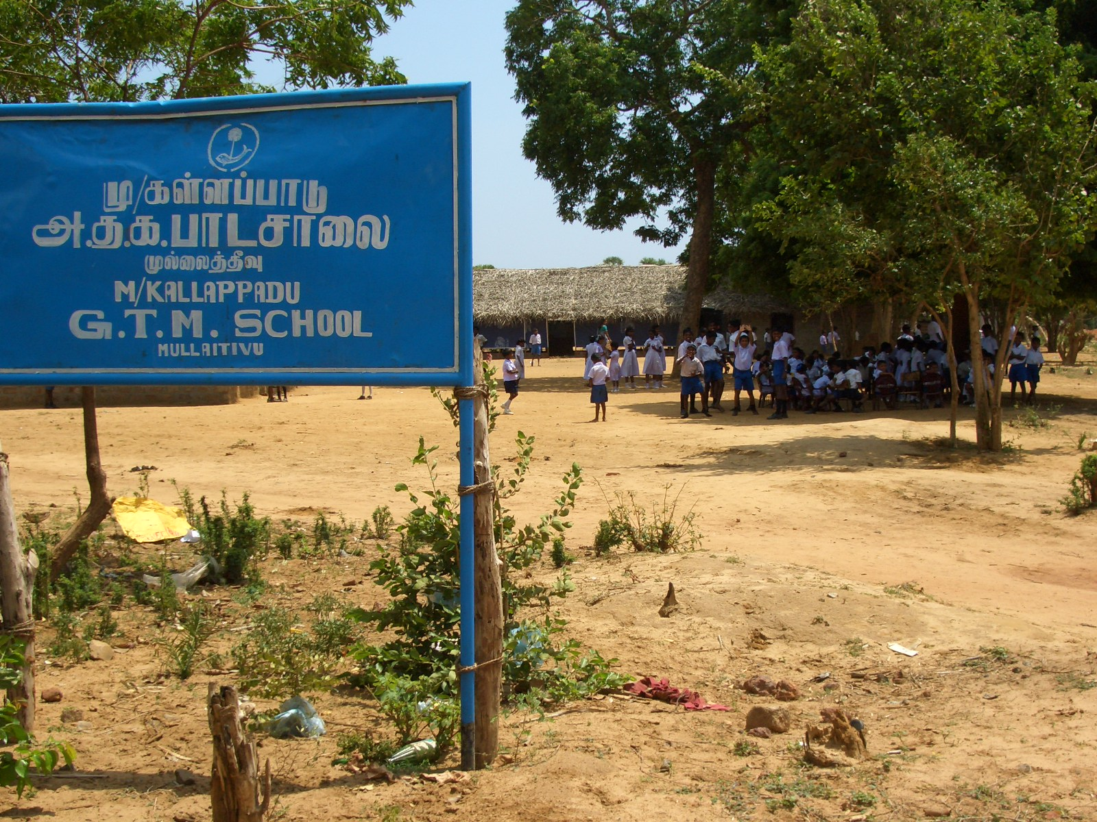 This picture shows the front view of a school namely Mullaitivu Kallapadu GTM School in mullaitivu district in Sri Lanka.